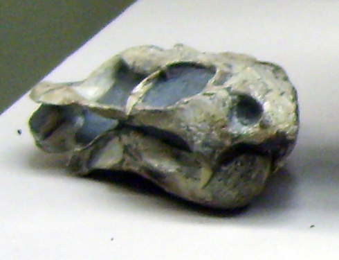 Pristerodon mackayi (formerly Cryptocynodon schroederi) at the Museum für Naturkunde, Berlin.